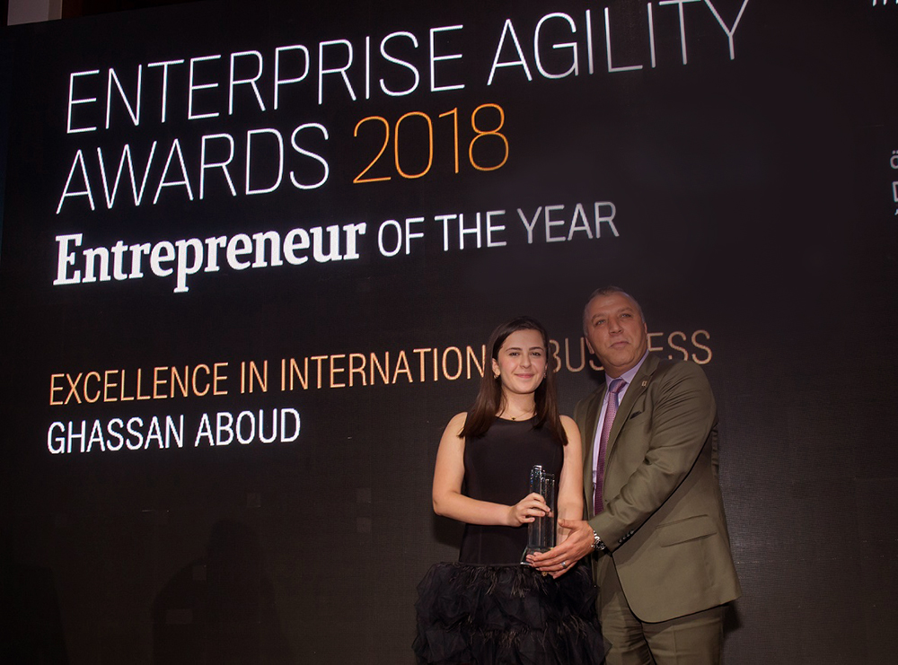 Ghassan Aboud named Entrepreneur of the year award during Enterprise Agility awards 2018